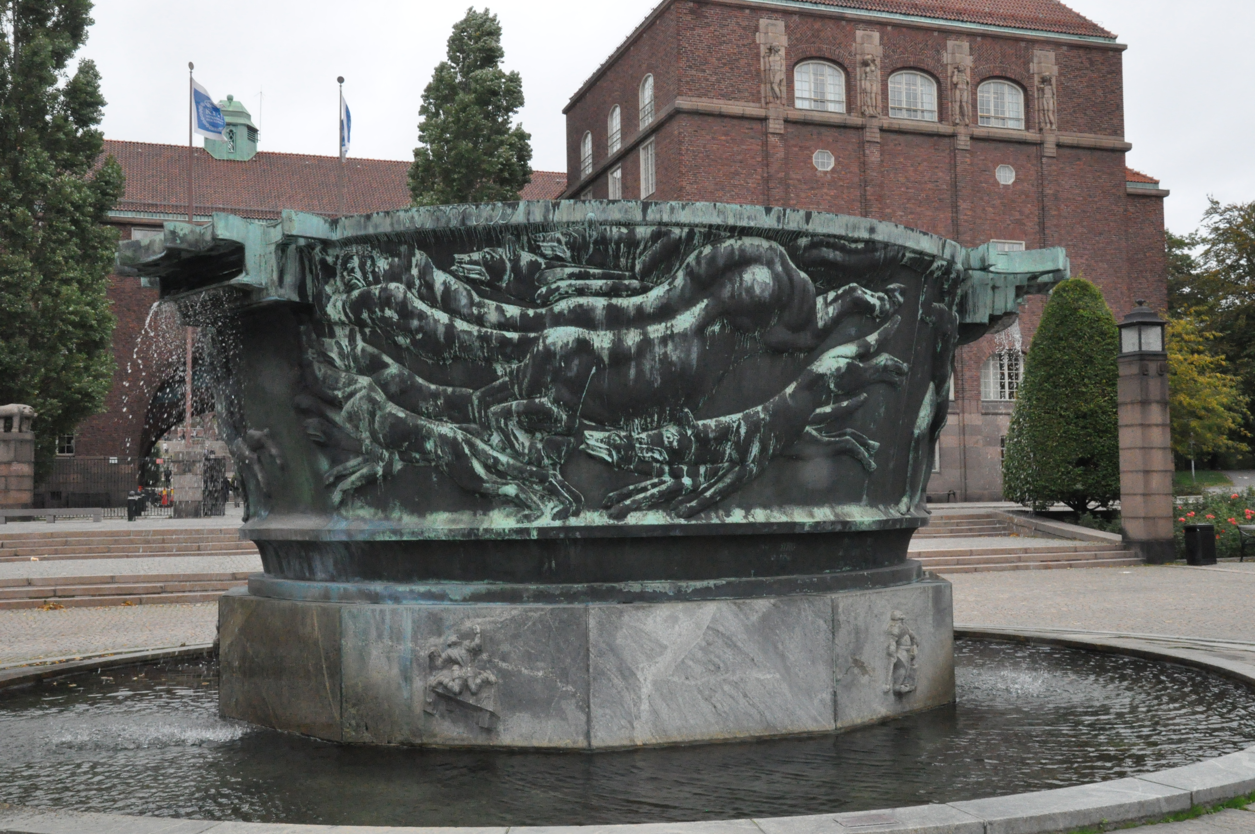 Carl Milles' Industribrunnen (Industry Fontain), Royal Technical College, Stockholm, Sweden. Detail of the basin of the fontain